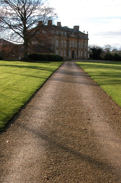 Foxcote House. I can find little on the history of this house, other than a 1891 census which records that Philip Howard, a magistrate lived here. The house is impressive and dates from the early 18th century.